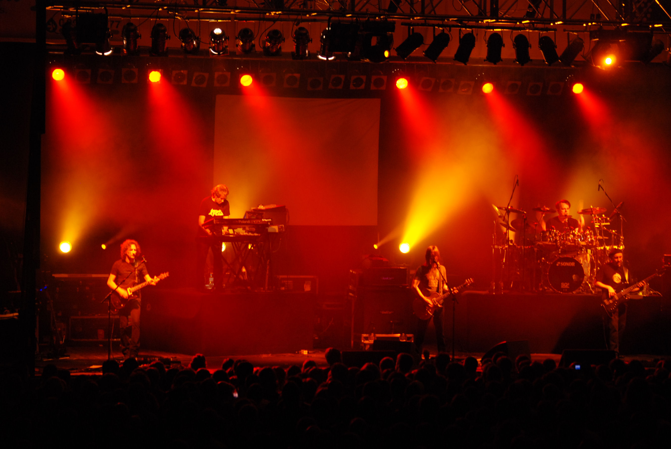 Porcupine Tree during concert in TS Wisła in Kraków To zdjęcie powstało dzięki współpracy z Rock-Servis